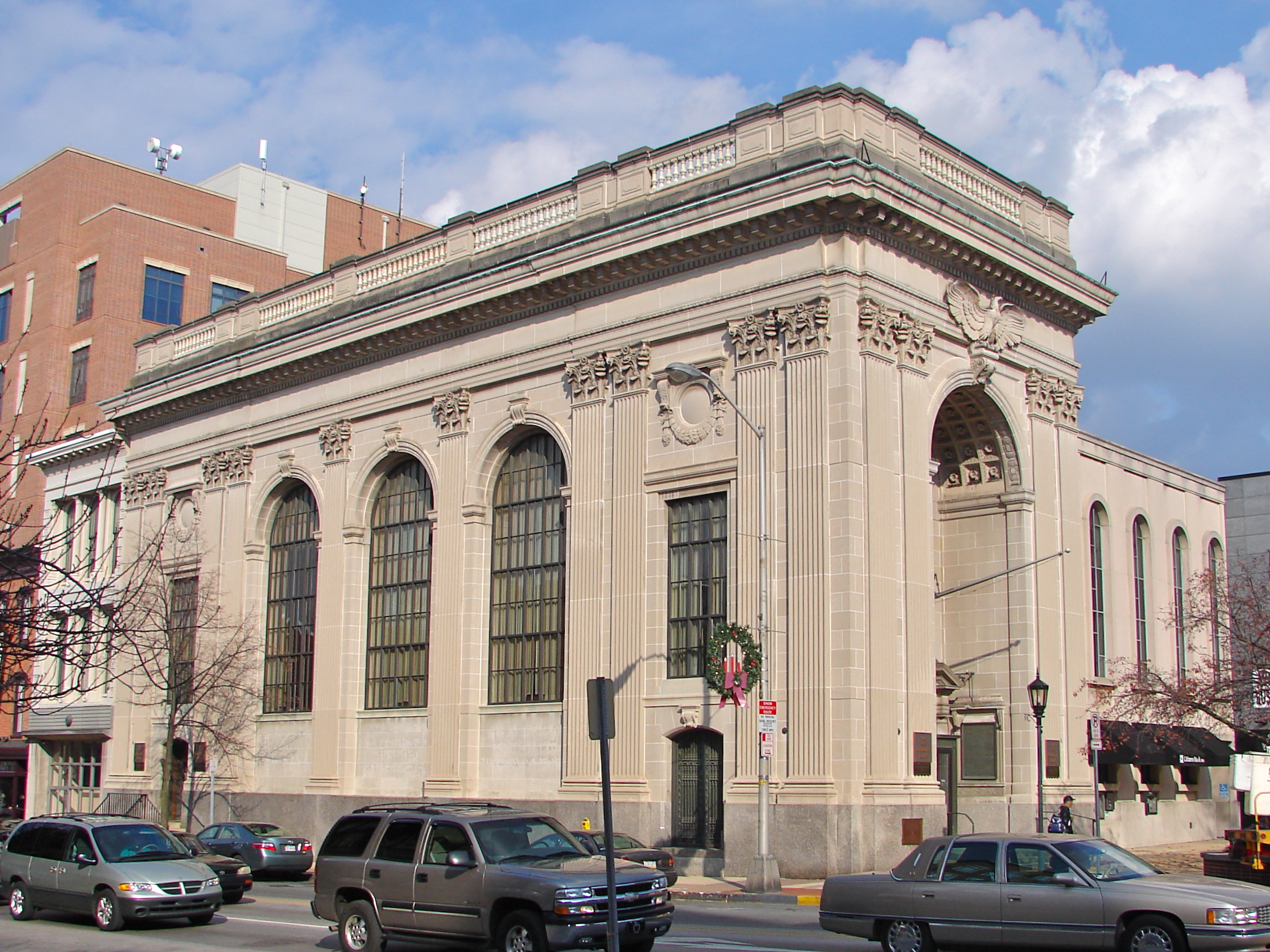 Citizens Bank on the central Square, York, Pennsylvania. An earlier house on this site served as the US Treasury while York was the capital of the United States in 1777.